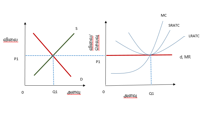 Perfect competition equilibrium in the ling run